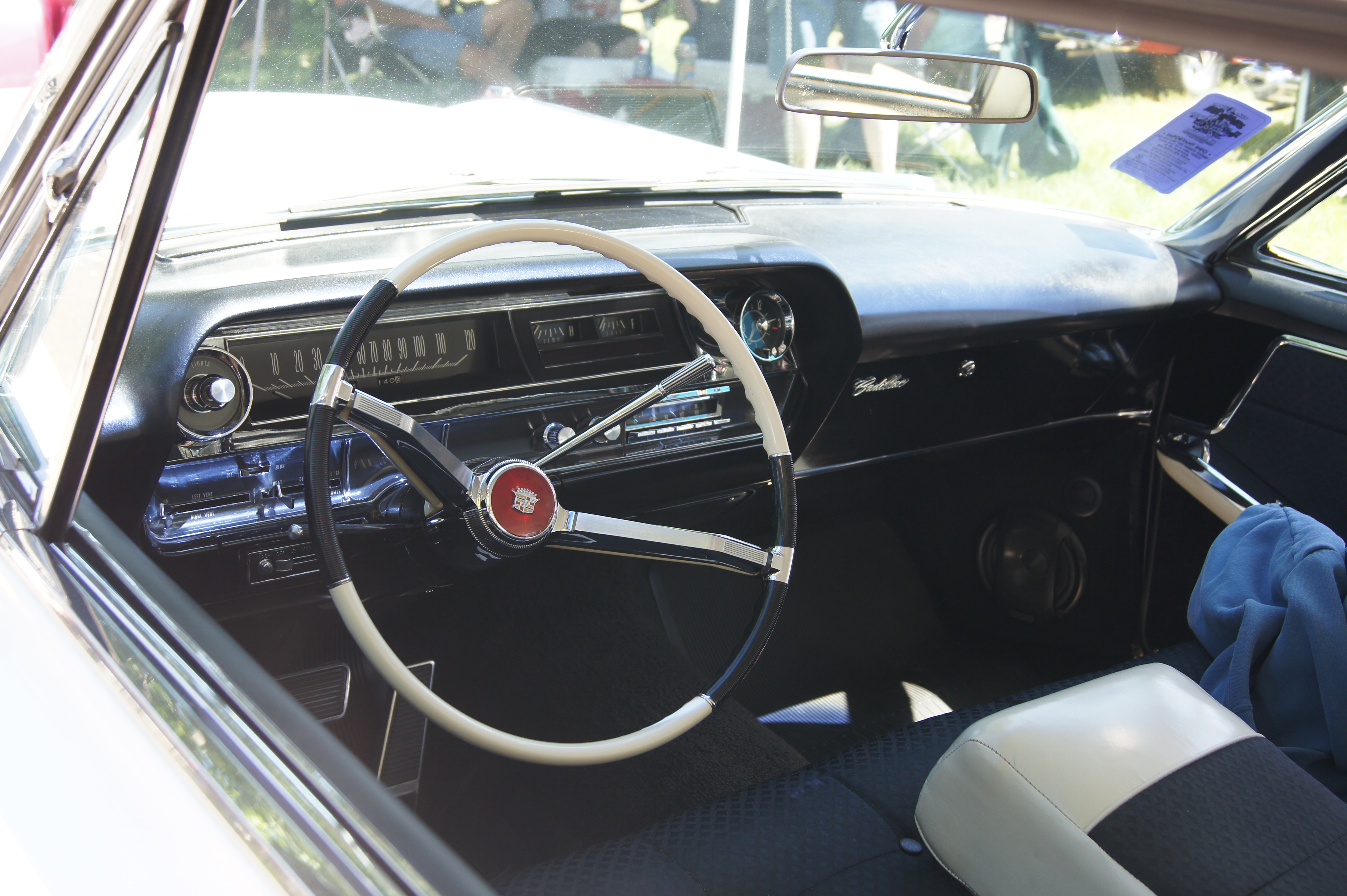 MSRA “BACK TO THE 50′s” 41st Annual June 20-22, 2014 State Fairgrounds St. Paul Minnesota More Car Pictures